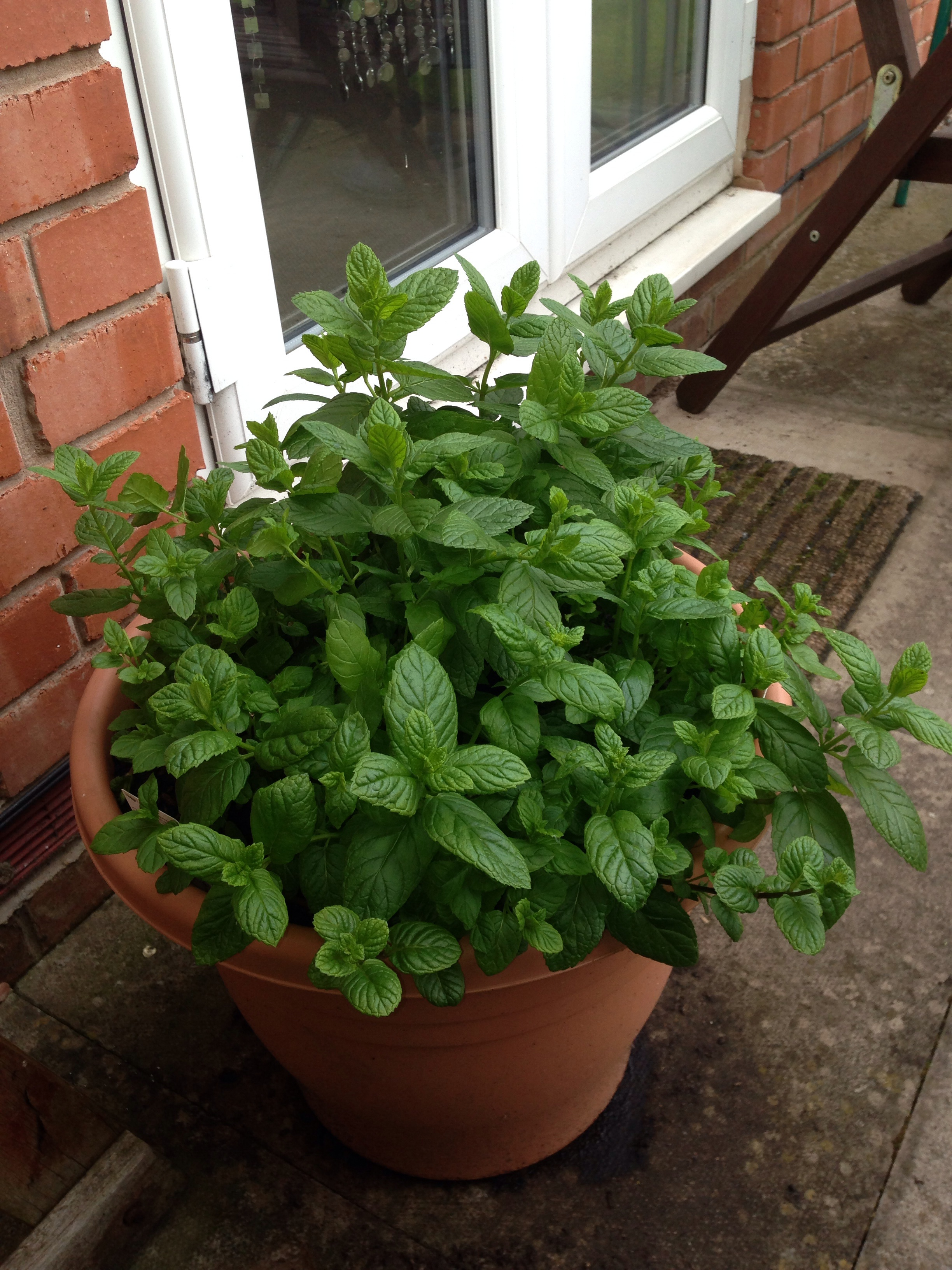 Mint